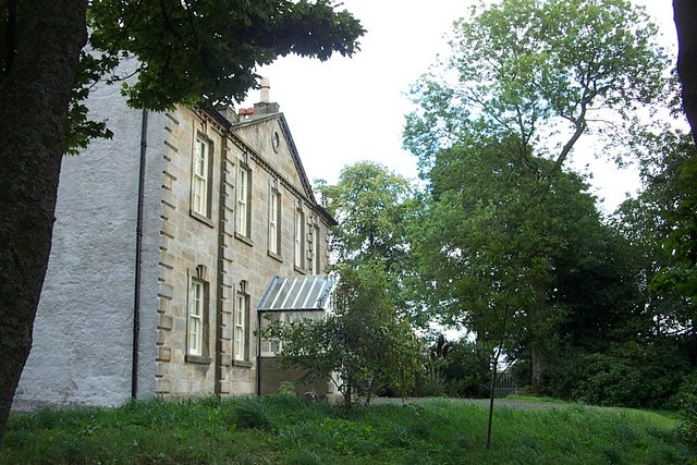 Wester Kittochside, East Kilbride The Georgian farm buildings of Wester Kittochside which are at the centre of the new Museum of Scottish Country Life established by the National Trust for Scotland and National Museums of Scotland at Kittochside.